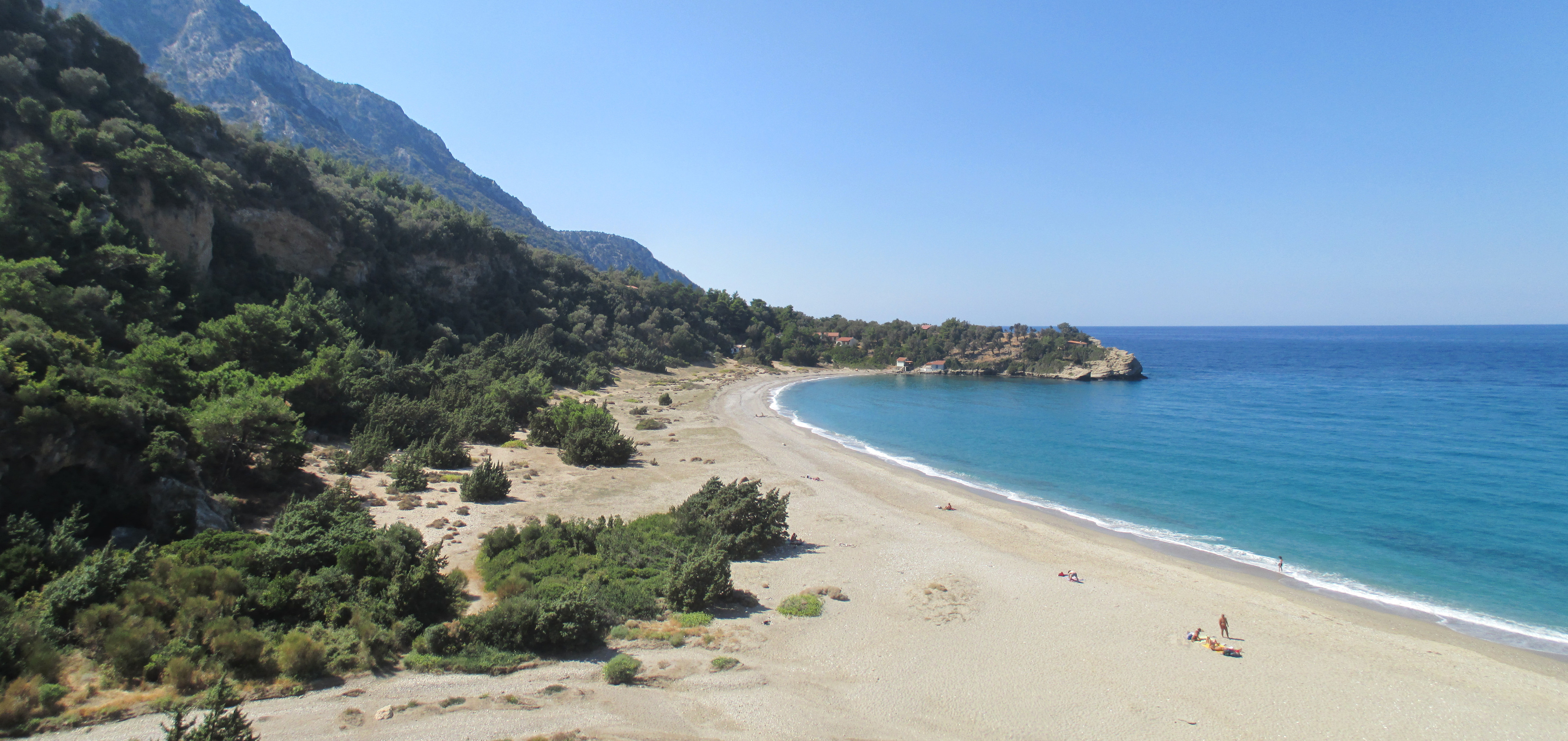 Megalo Seitani beach, Samos, Greece.